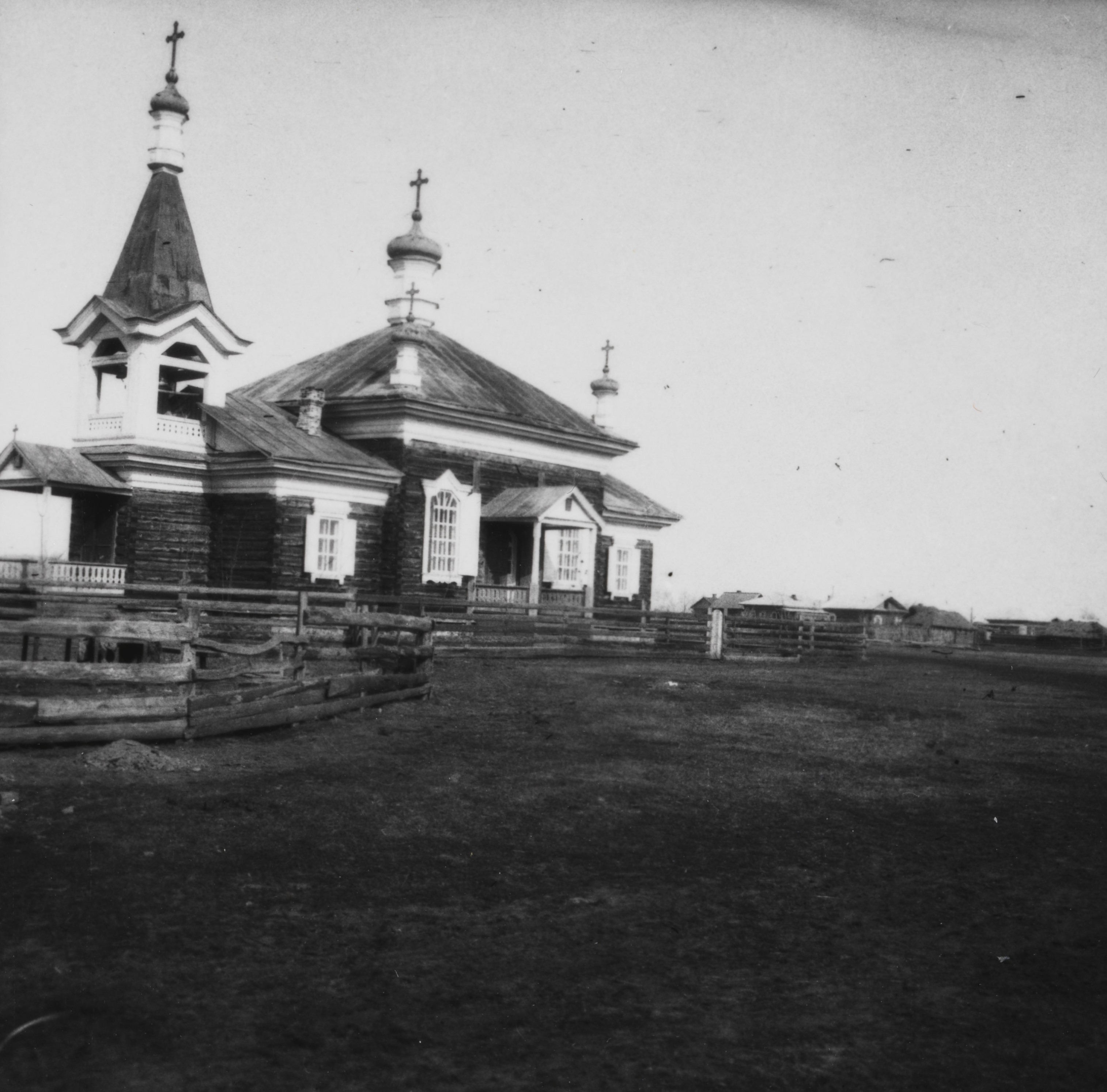 The Russian Orthodox church in Arcadje-Semenovskoje. One of the pictures from the journey to Siberia between Aug. 2 and Oct. 26, 1913. Fridtjof Nansen continued his trans-Siberian journey by railroad, some of it recently finished, from Krasnoyarsk all the way to Vladivostok.